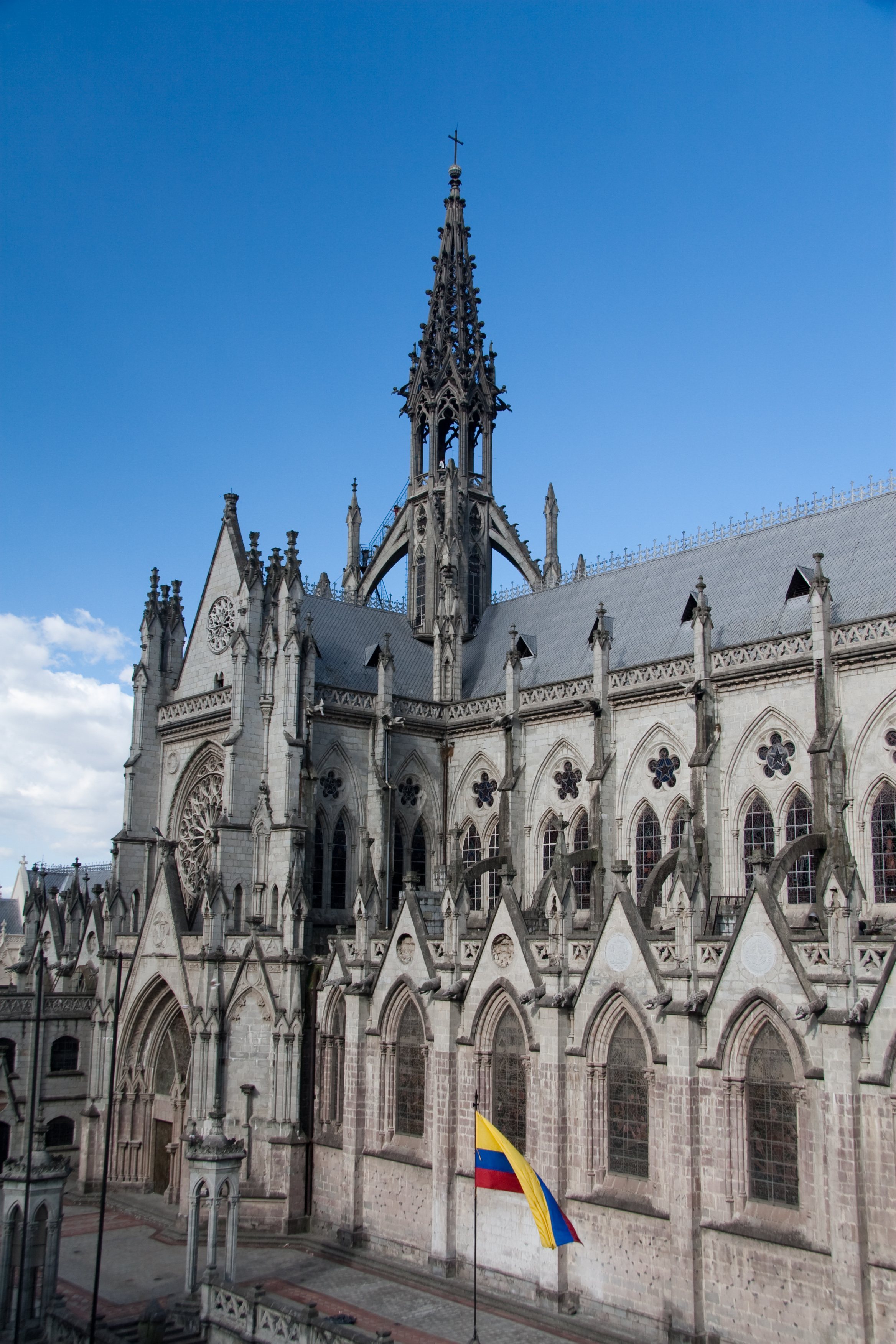 The Basilica of the National Vow (Spanish: Basílica del Voto Nacional) is a Roman Catholic church located in Quito, Ecuador. 0°12′54.2″S 78°30′27.4″W / 0.215056°S 78.507611°W